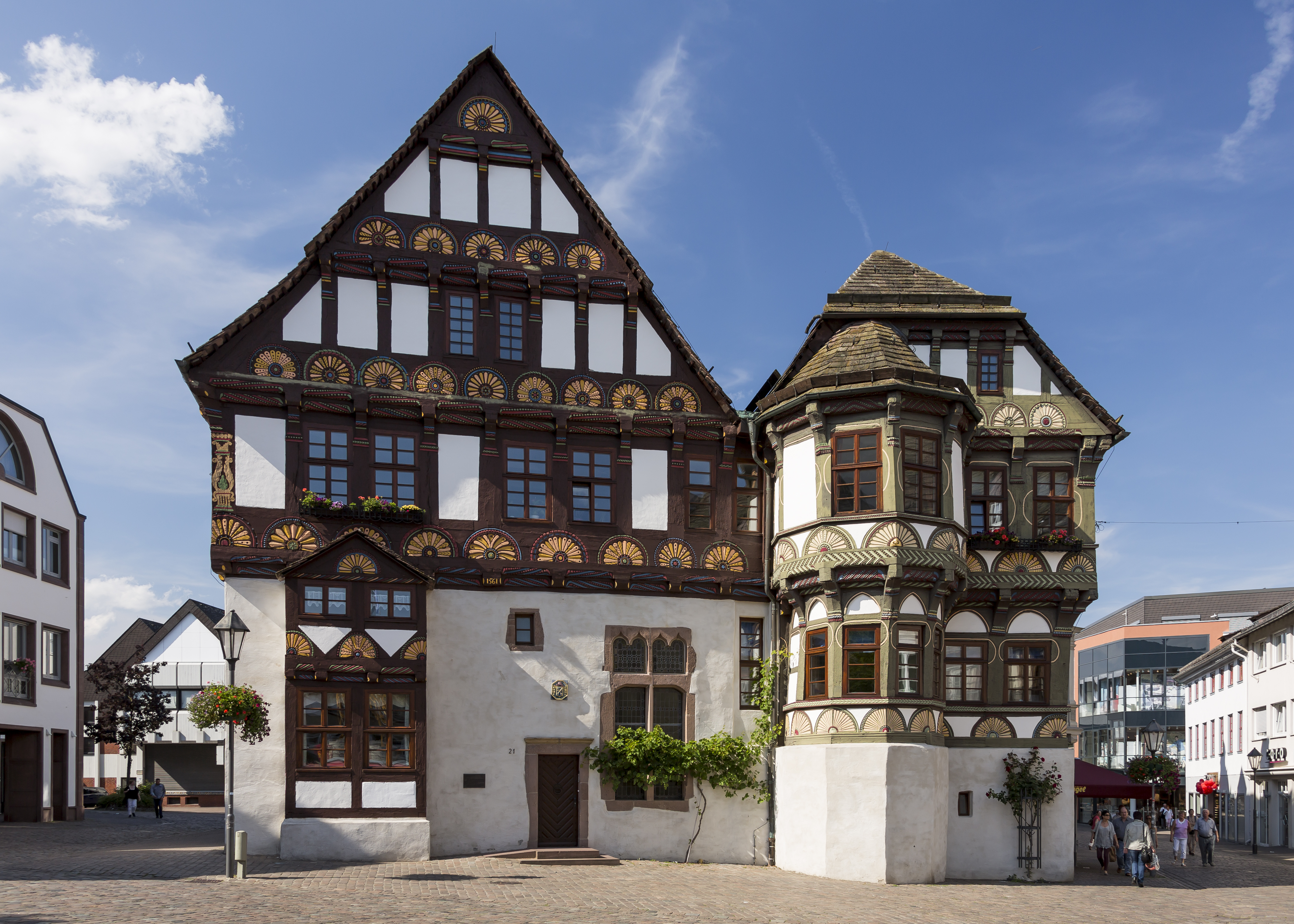 Höxter, Germany: Alte Dechanei